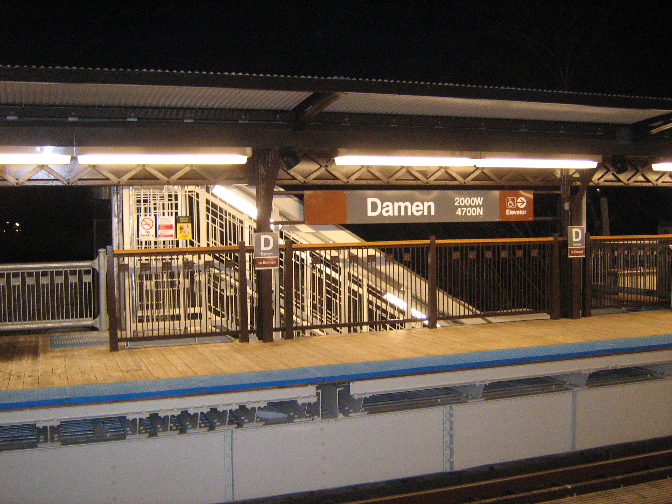 Damen Avenue and Leland Avenue (2000W/4700N) 4645 N. Damen Ave. Chicago, IL 60625 Brown Line (Ravenswood Branch)